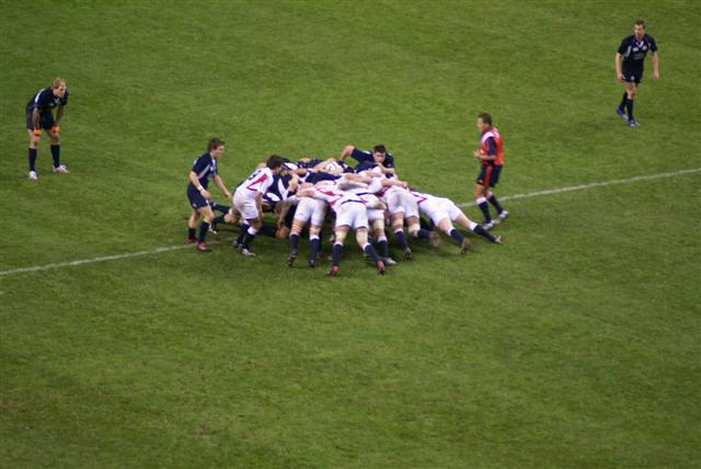 Team Scotland vs Team England